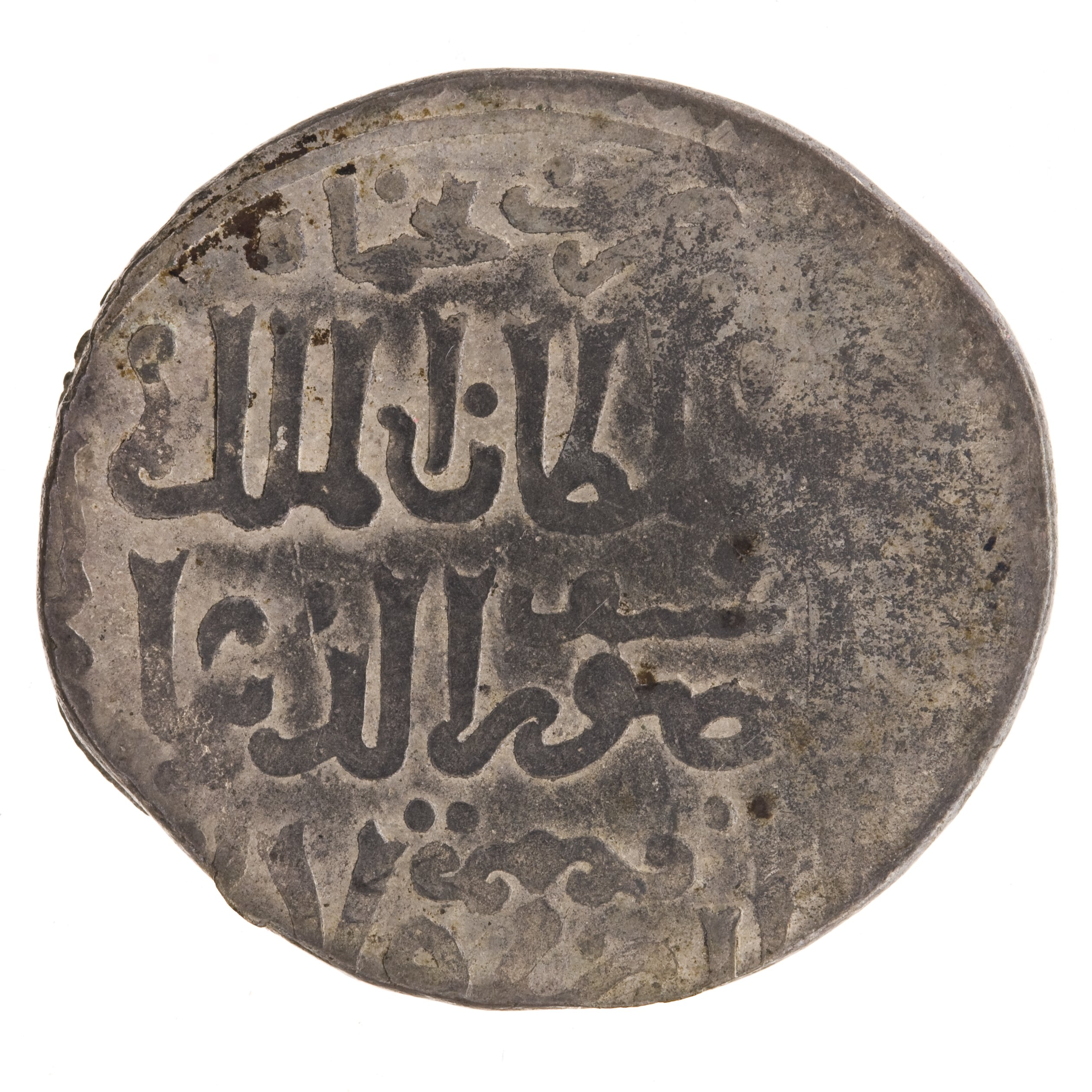 Silver dirham of Mamluk sultan Qalawun minted in Hama in 1290